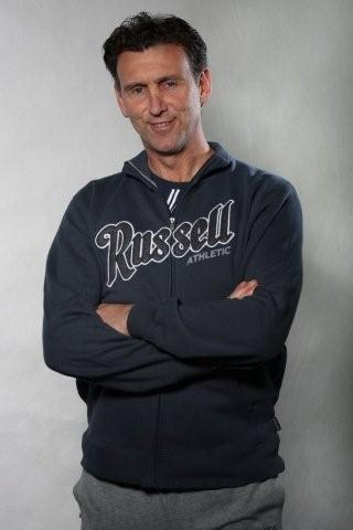 Peter Daicos, Australian rules football player